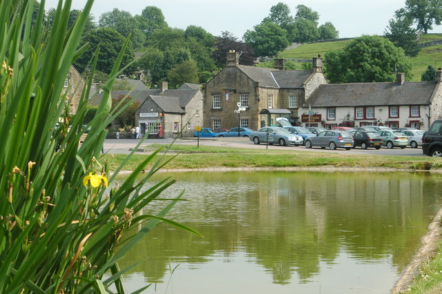 Hartington is near but not on the River Dove, The Devonshire Arms